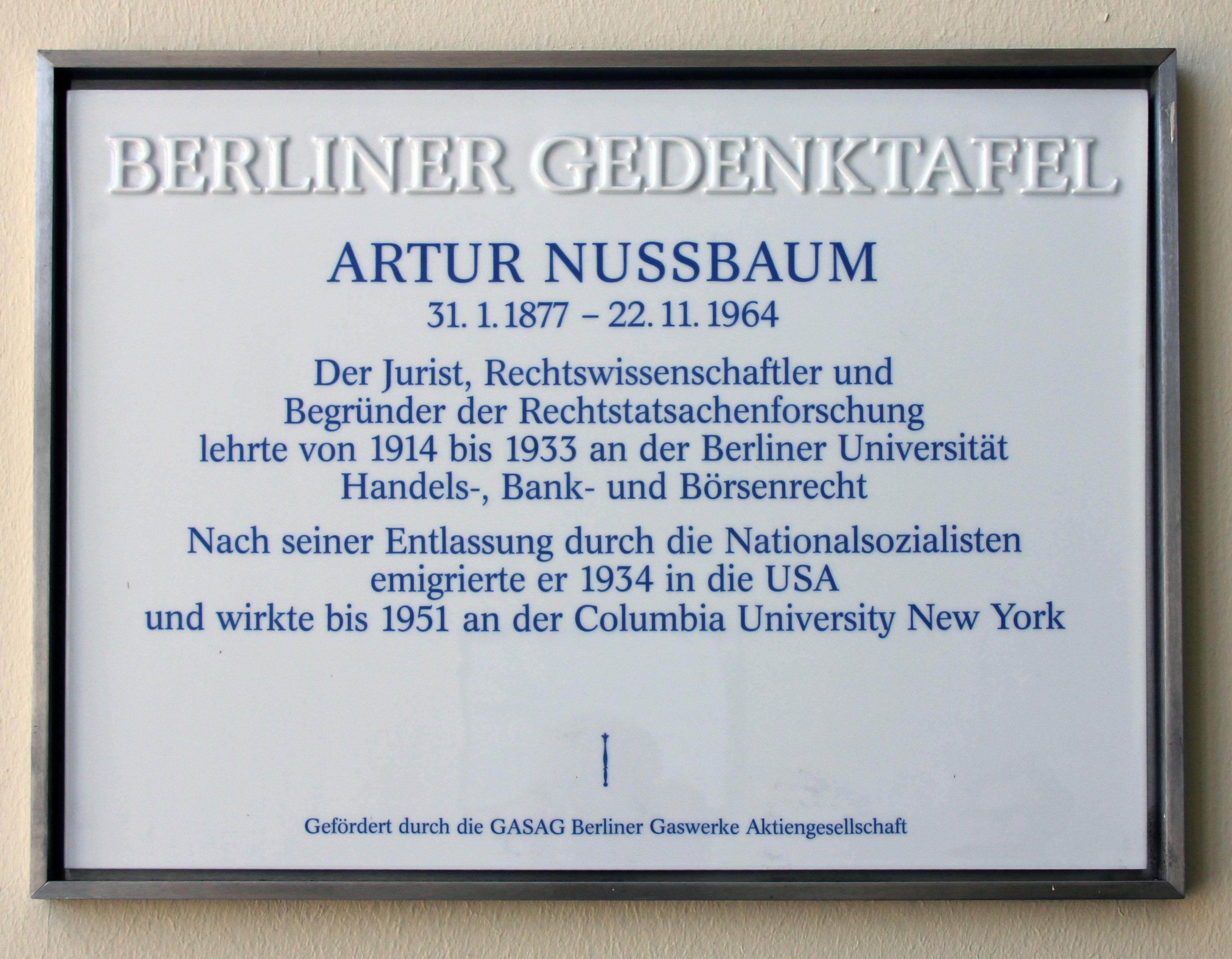 Berlin memorial plaque, Artur Nussbaum, Bebelplatz 2, Berlin-Mitte, Germany